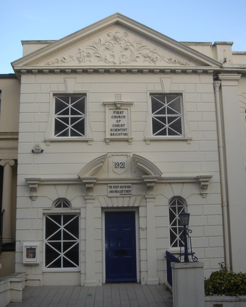 First Church of Christ, Scientist, Montpelier Road, Brighton, City of Brighton and Hove, England. Converted from a 19th-century house in 1921. This view shows the elaborate entrance bay; the body of the church is to the right.